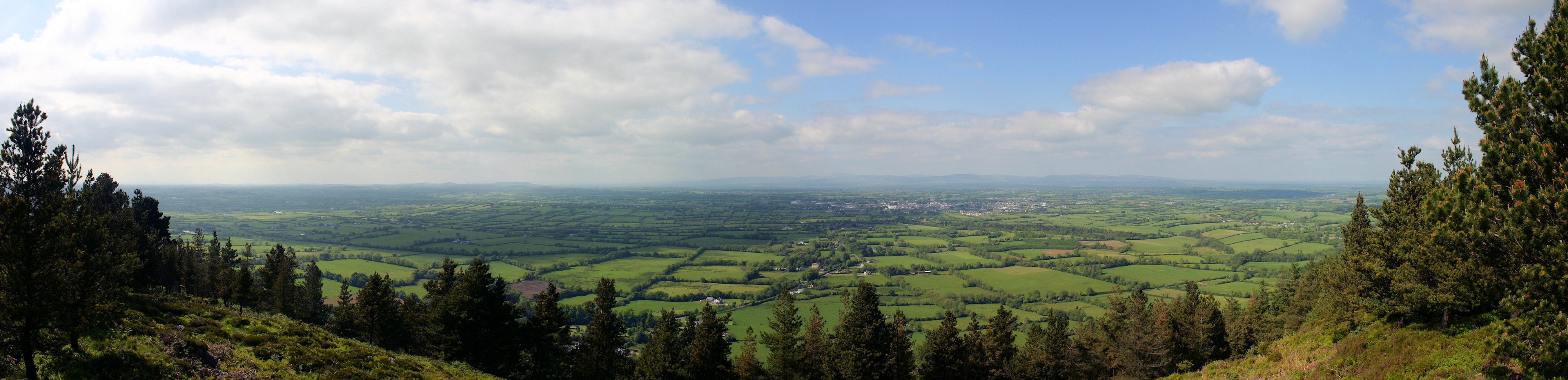 Panorama view on Tipperary and surroundings, and at the horizon the Silvermines Mountains.